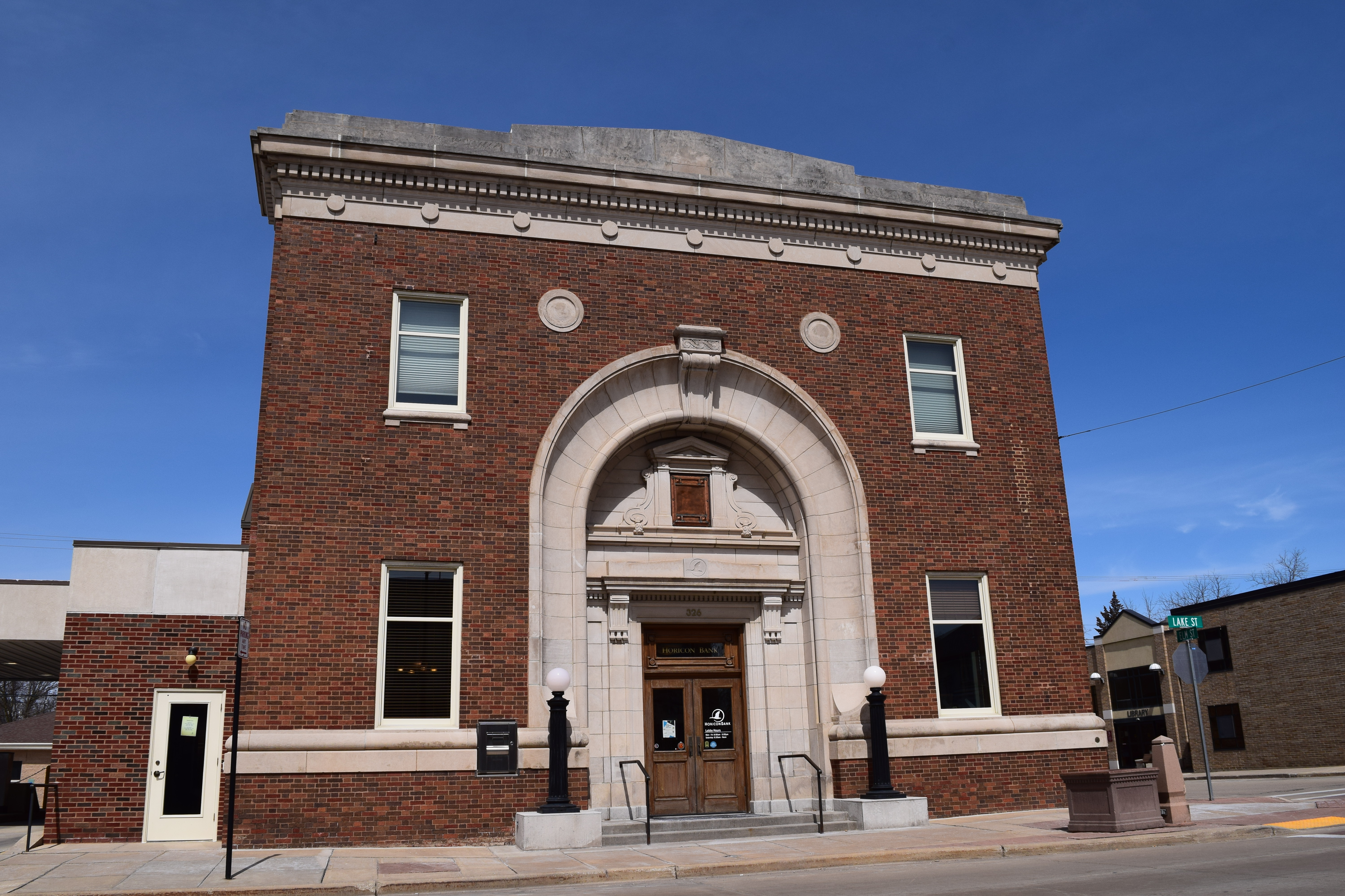 The front of the Horicon State Bank, located at 326 E. Lake Street in Horicon, Wisconsin. The building is listed on the National Register of Historic Places.